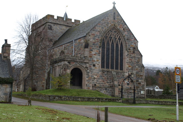 Church in Braemar